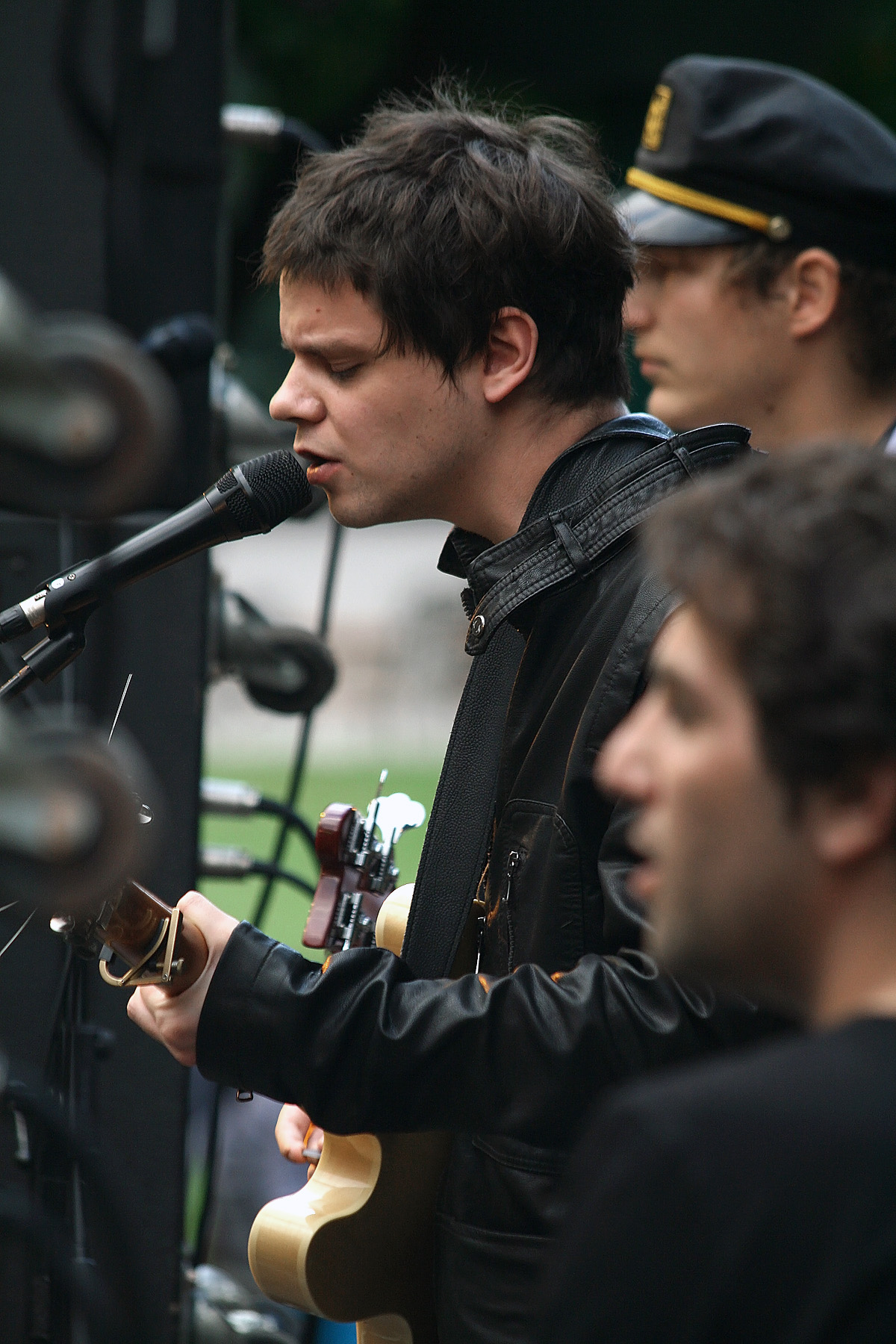 Der Nino aus Wien - concert at the Stadtpark in Vienna.